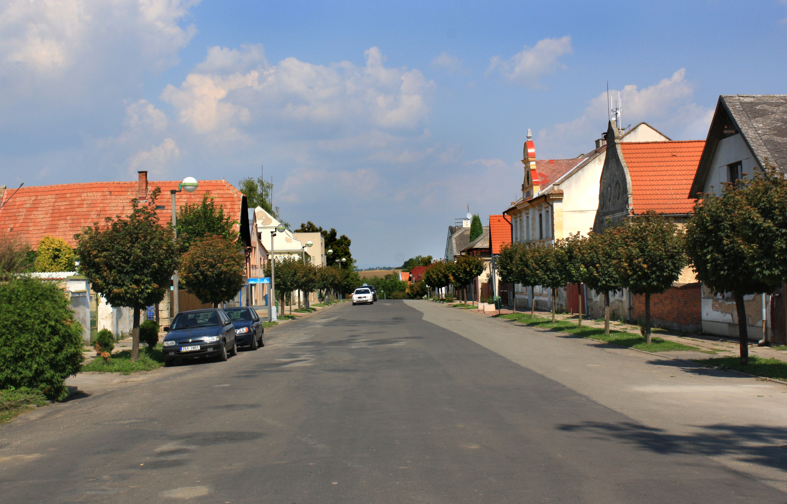 Na Městečku street in Sovínky, Czech Republic